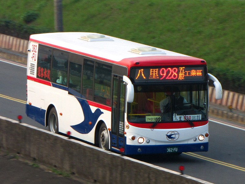 KINGLONG KL685021A1-3 of Tamshui Bus 362-FU